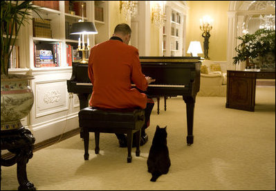 India the Cat listens to a piano in the Private Residence of the White House. March 2007